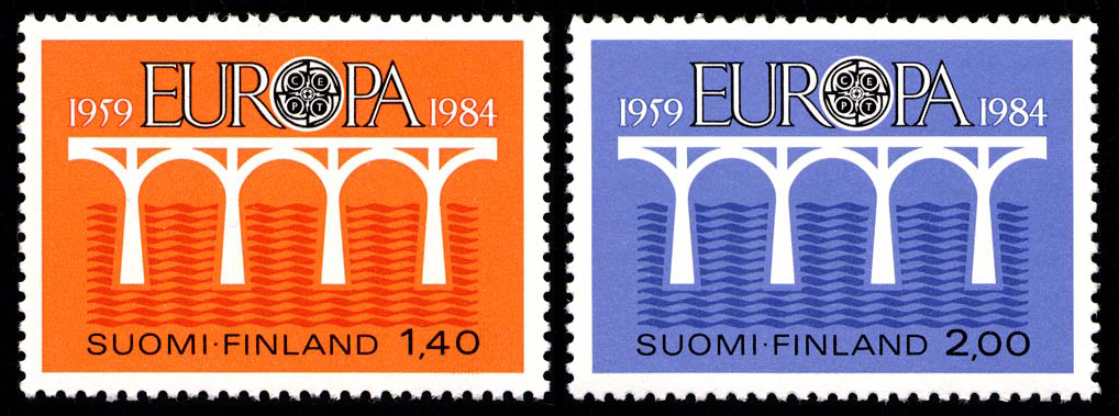 Postage stamps of Finland, 1984. Issue on the Europa-CEPT program.